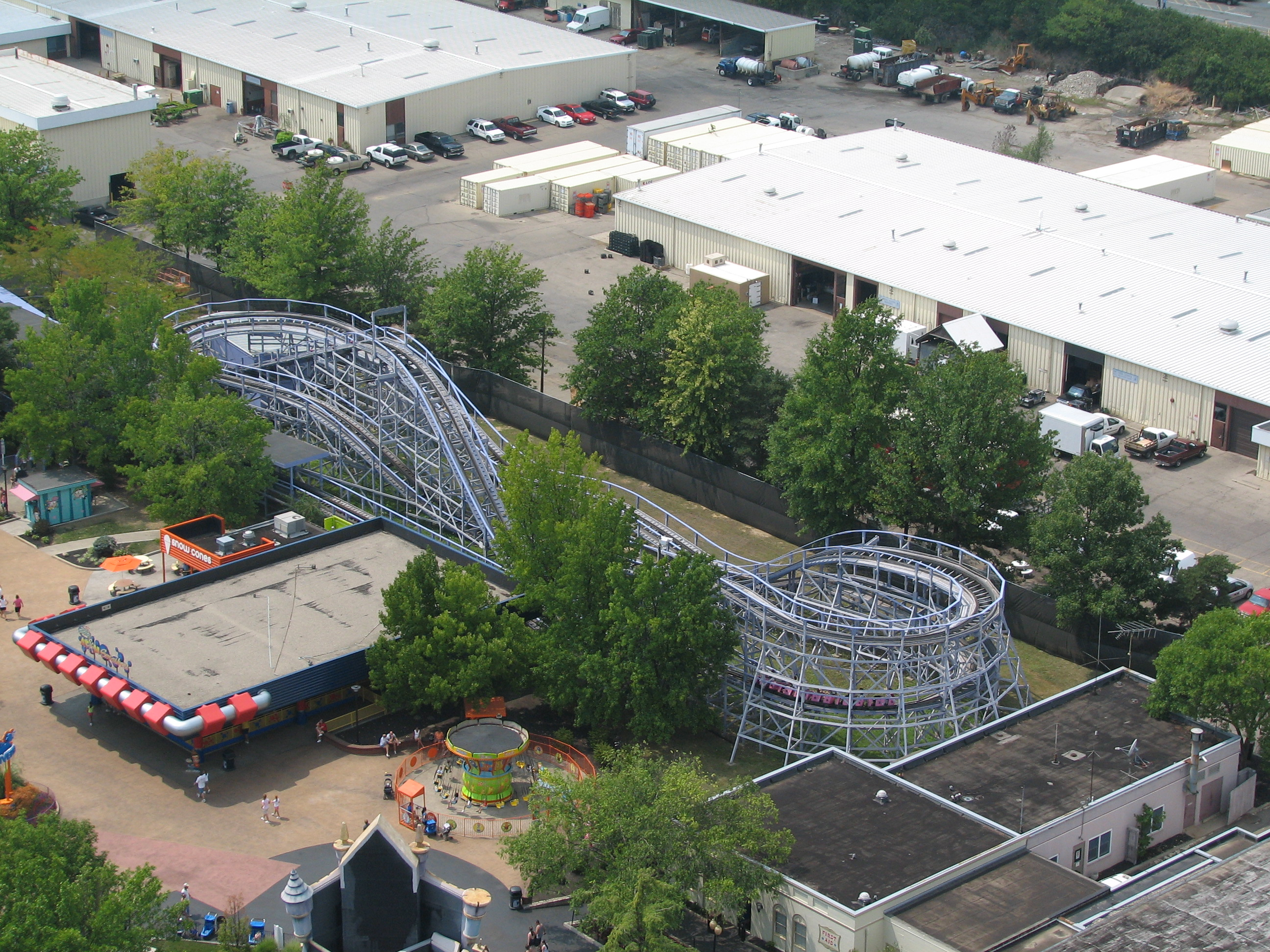 The wooden kiddie coaster. Formerly called "Fairly Odd Coaster", "The Beastie" and "Scooby-Doo"